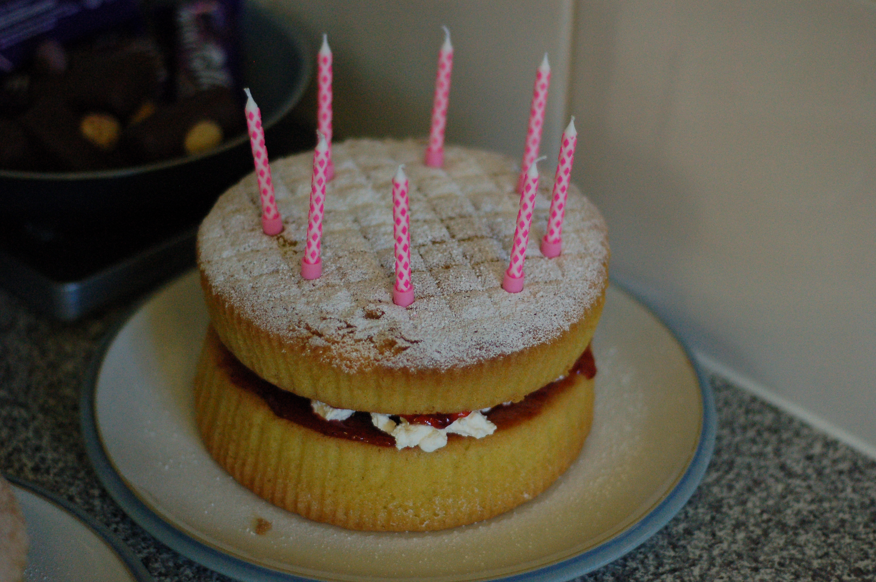 Victoria sponge cake